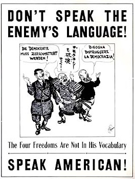 This sign was hung in post offices and in government buildings during World War II. This picture is included in the book "Una Storia Segreta."